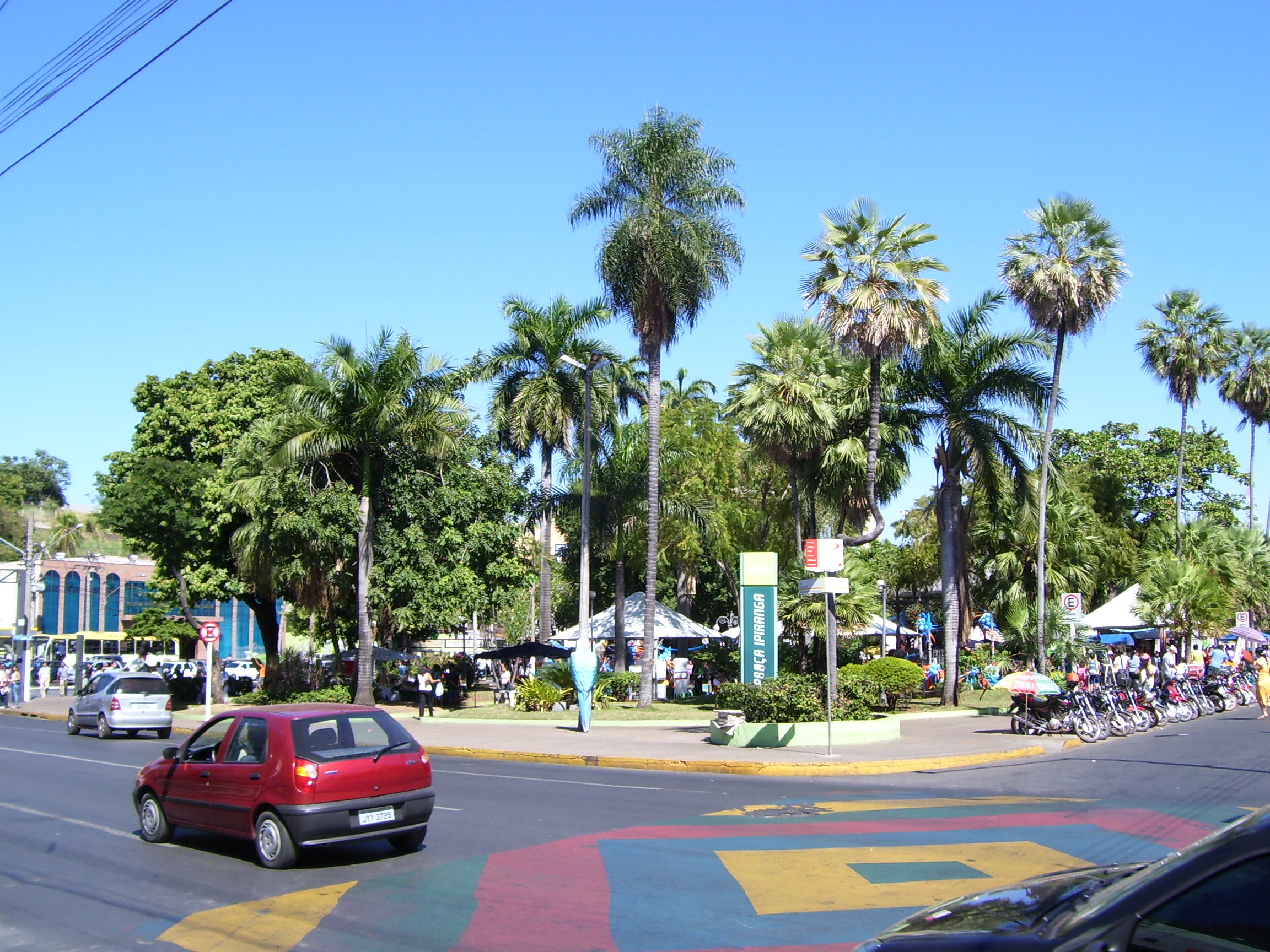 Ipiranga Square, in Cuiabá, Mato Grosso, Brazil.